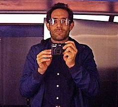 Photo from official Dov Charney / AA flickr account. Previously uploaded by someone with incorrect information. Dov Charney, CEO of American Apparel, self-portrait.